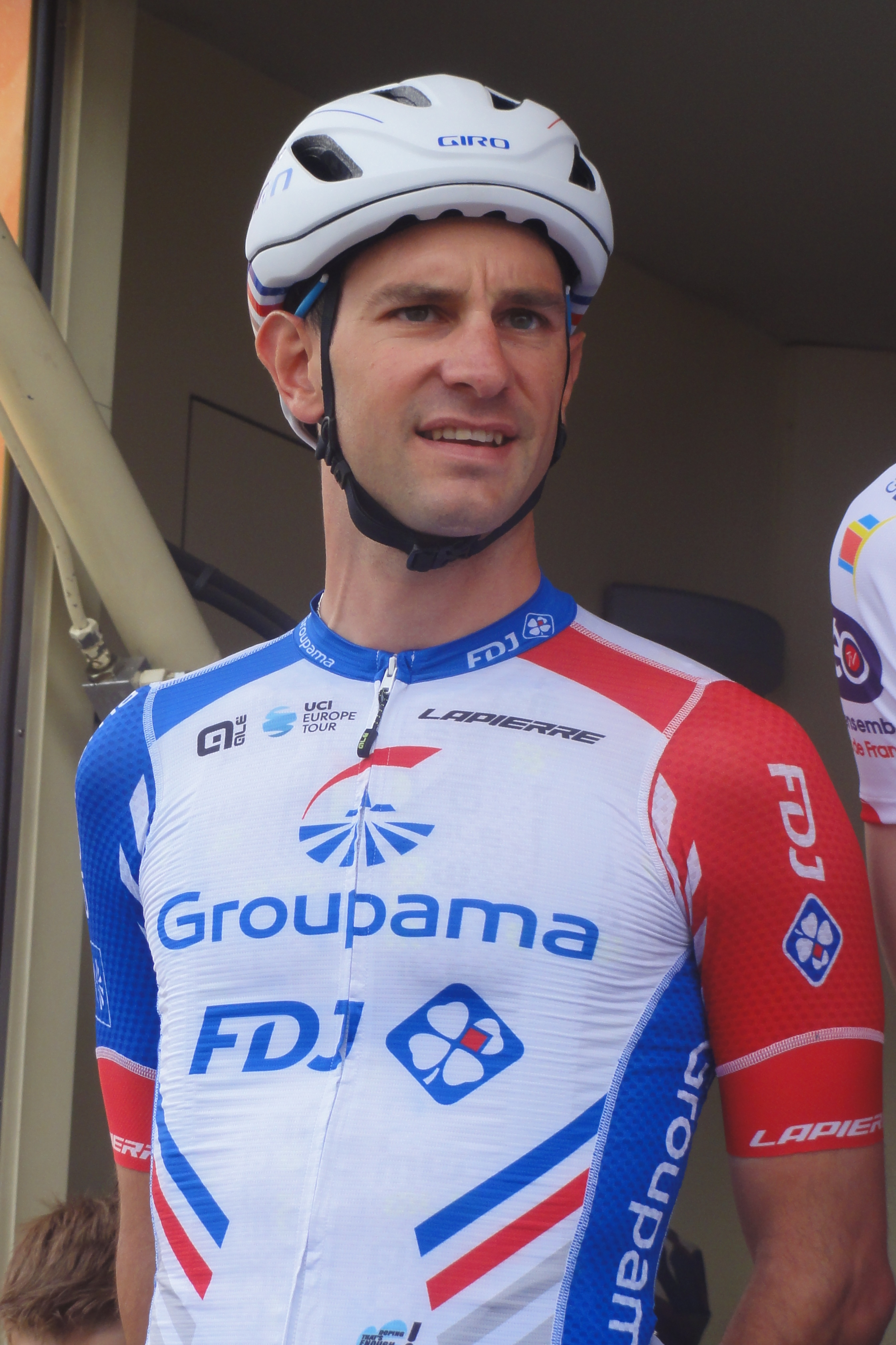 Depicted place: Petite-Forêt